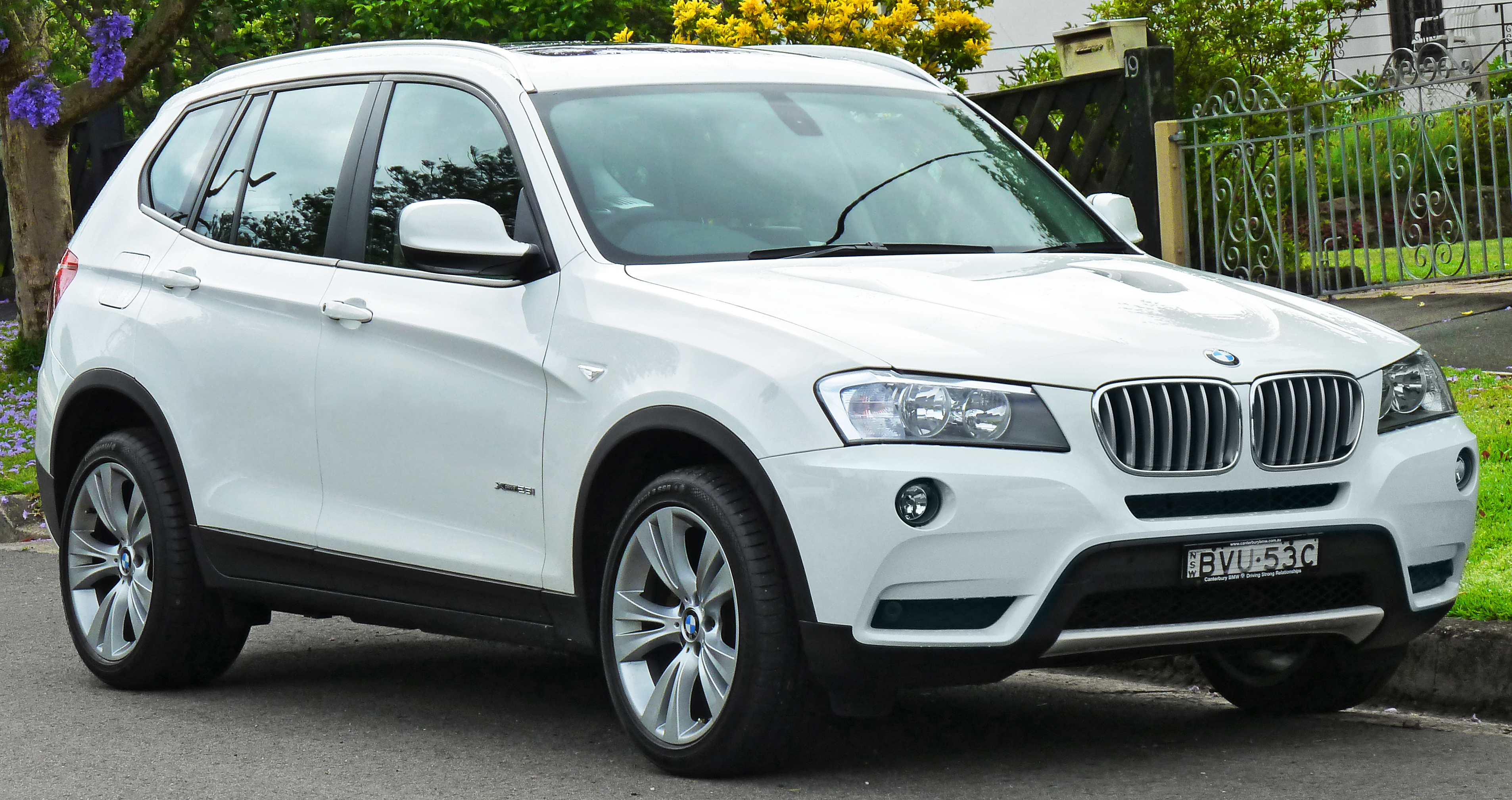 2011 BMW X3 (F25) xDrive28i wagon. Photographed in Gordon, New South Wales, Australia.